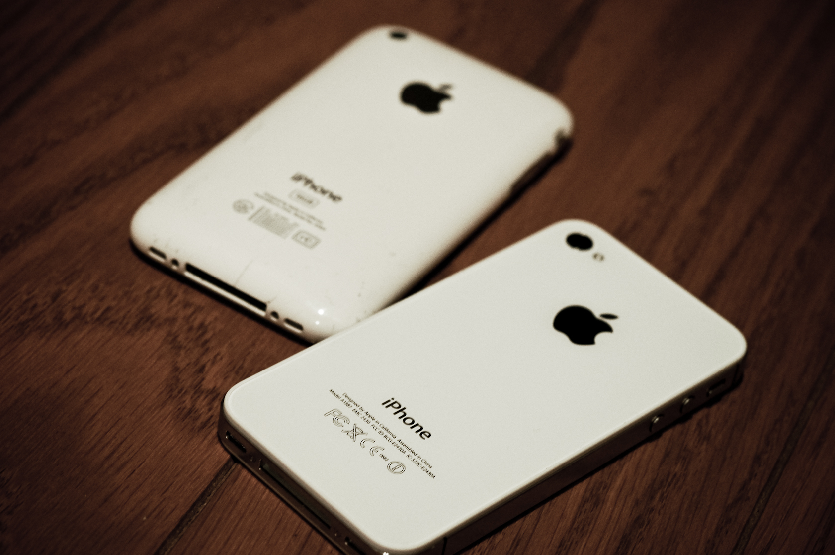 A 2011 iPhone 4S Compared to a 2009 iPhone 3GS.